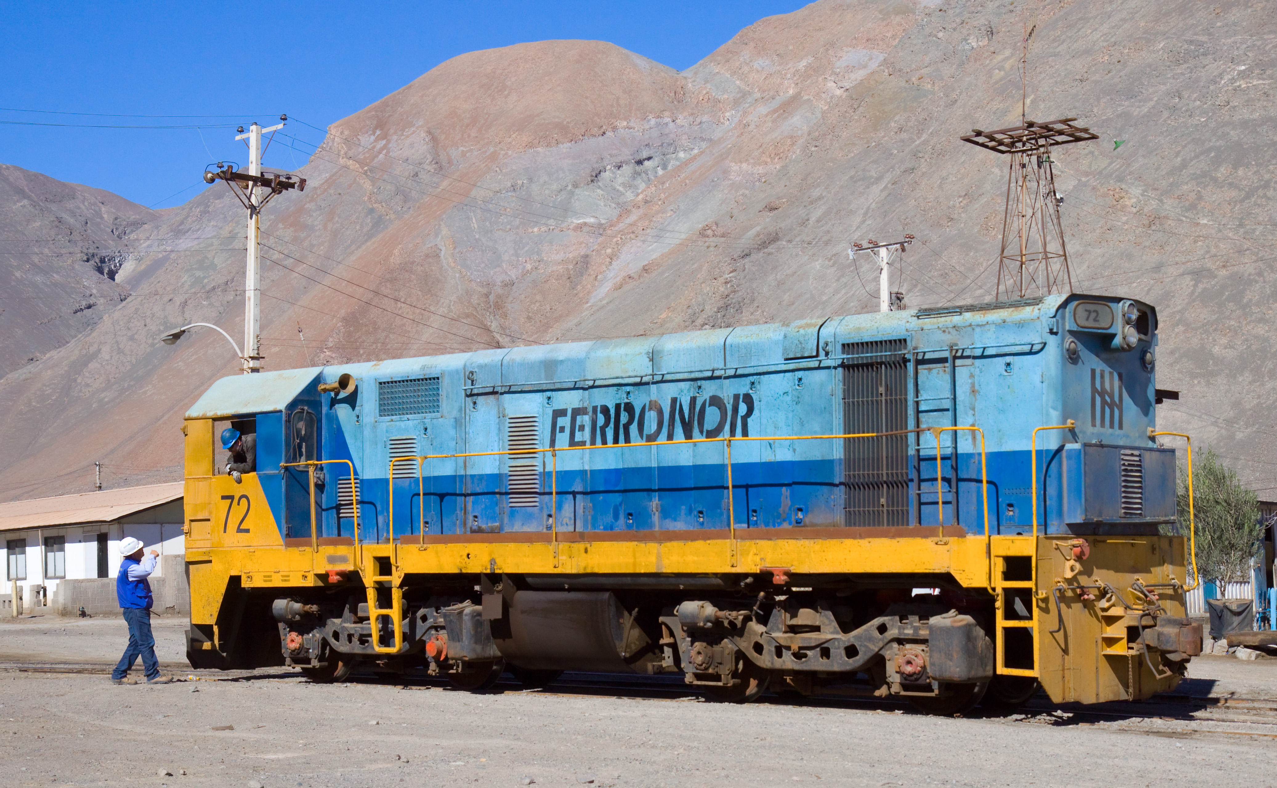 Ferronor's EMD G18U 72 shunting at Llanta, Chile.